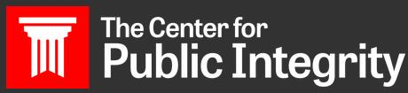 Logo of the Center for Public Integrity.